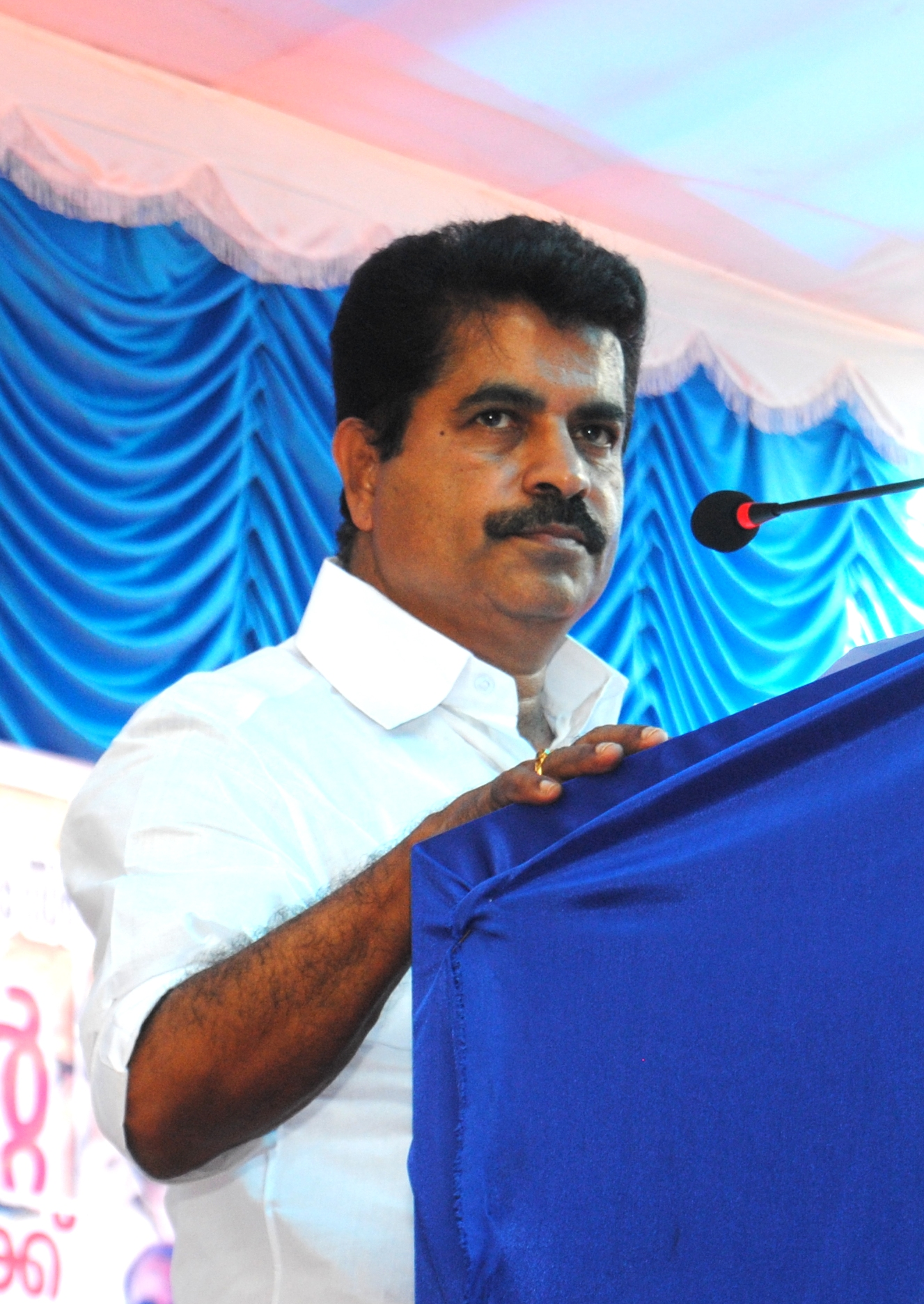 Minister Adoor Prakash